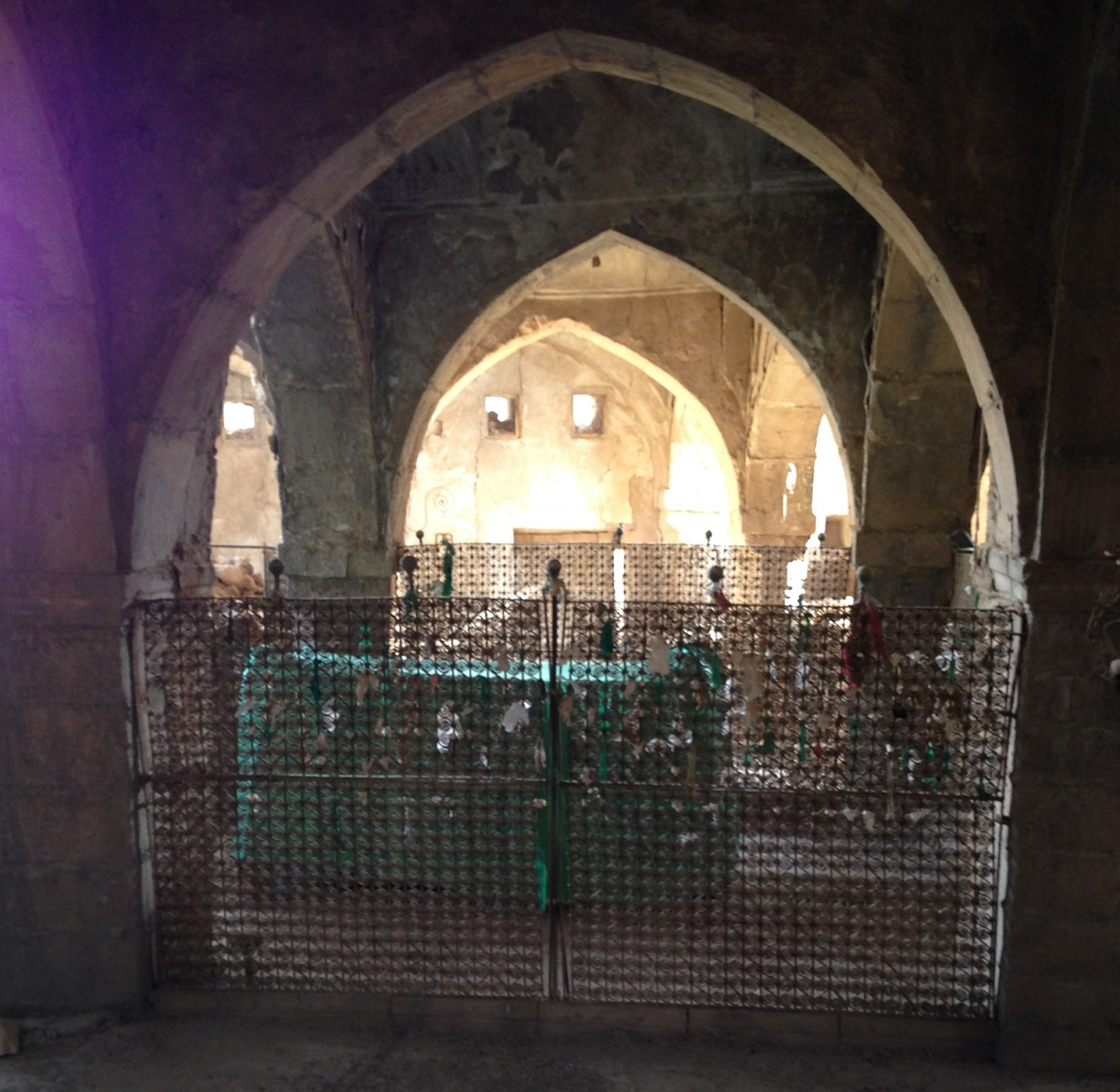 This is the tomb of the Jewish Prophet Nahum in Alqosh.